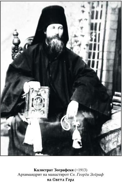 Photograph of Archimandrite Kalistrat of Zograf